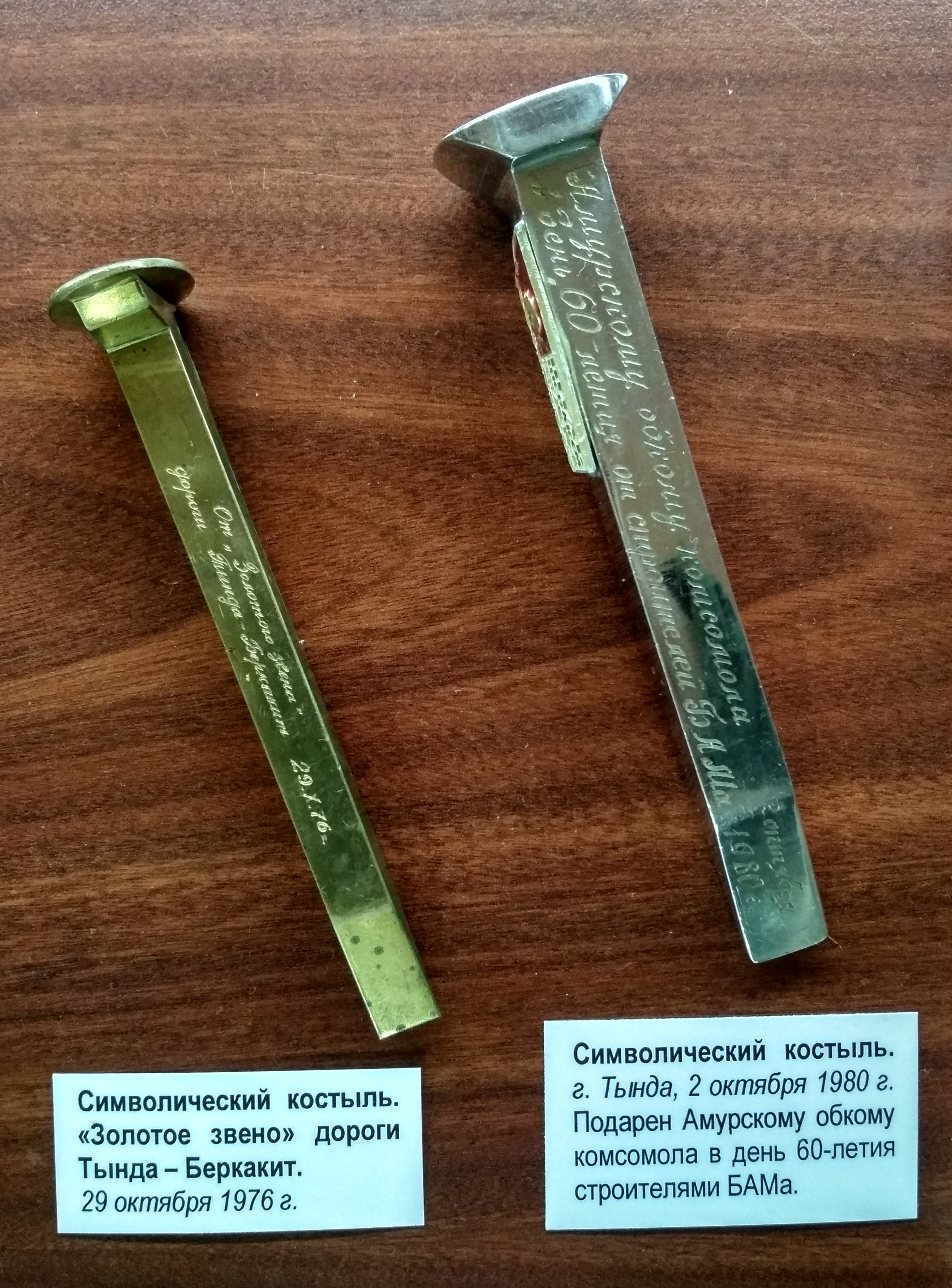 Symbolic Rail spikes. Exposition of the Annunciation Museum of Local Lore